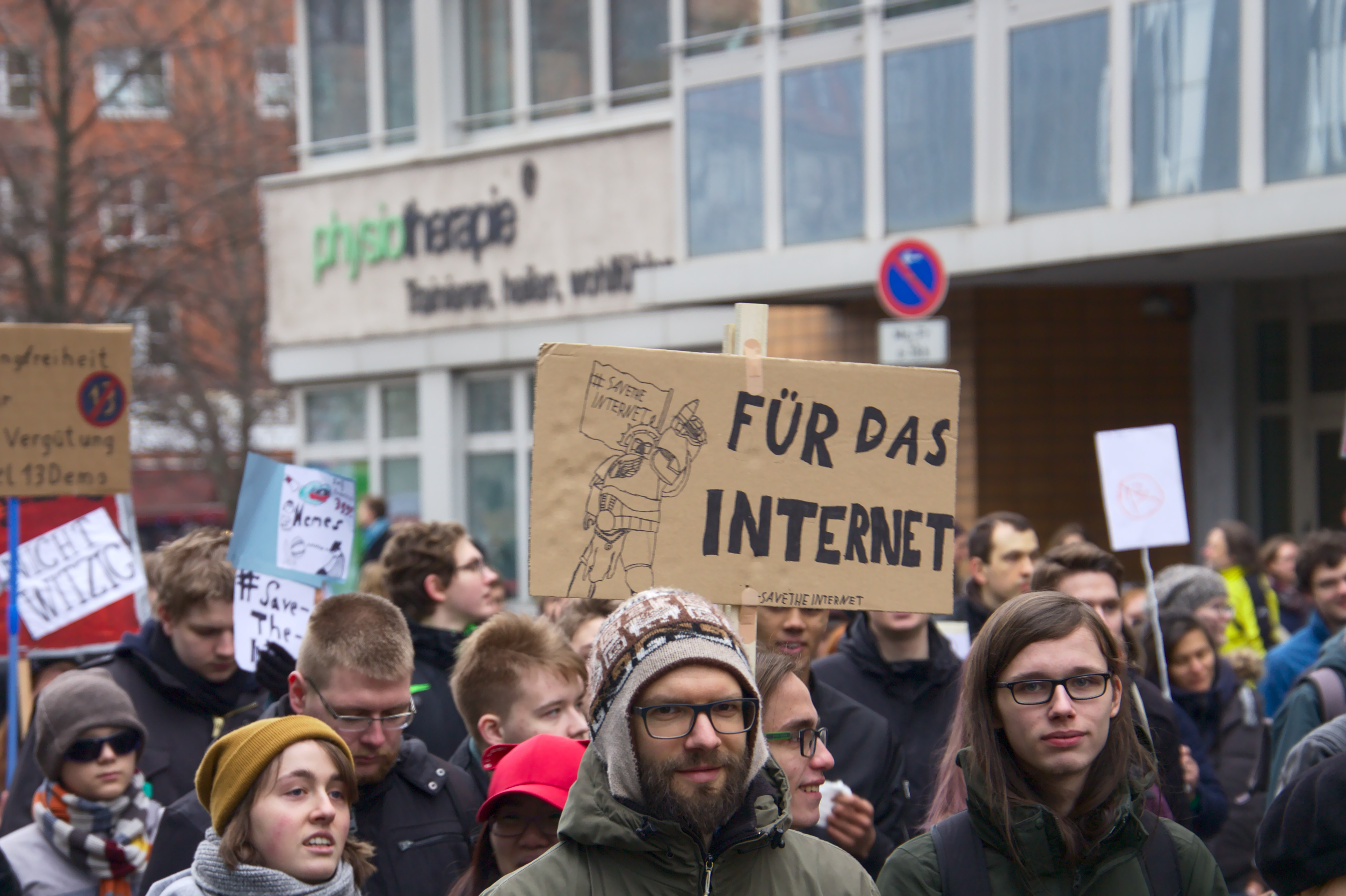 rally against the EU Copyright Directive on 2 March 2019 in Berlin